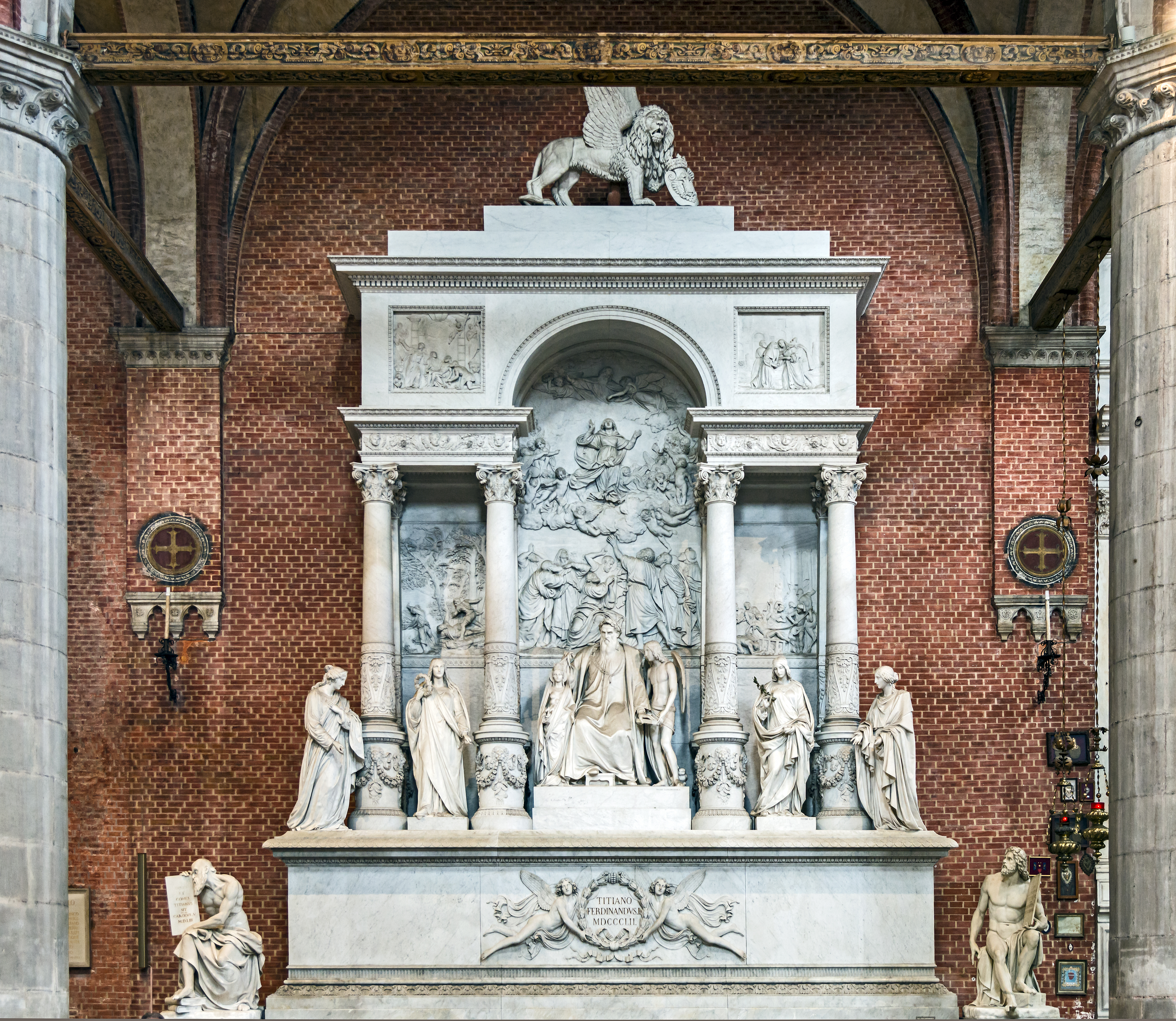 The Basilica di Santa Maria Gloriosa dei Frari, monument to Titian. Titian had wished to be buried in the Basilica of the Frari. He was buried at the monument dedicated to him on August 27, 1576. The monument is made of Carrara marble, it is due to the work of the brothers Luigi and Pietro Zandomeneghi, Canova disciples. The mausoleum is situated at the foot of the cross for which Titian made his last work, the Pietà, currently on display at the Academy. At the center of the monument: the statue crowned with laurels Titian is accompanied by the allegories of universal nature, the spirit of knowledge, in addition to painting, sculpture, graphic arts and architecture. At the base, the statue of Charles V and Ferdinand I of Austria, the two emperors for which he had worked. On the bottom five reliefs recall the most important religious works of the artist: the Assumption in the center, Peter of Verona to the left, the martyrdom of St. Lawrence on the right; The entablature above the right Visitation and the Descent from the Cross to the left. At the top of the monument stands the Lion of St.Marc with the coat of arms of the Habsburgs. The monument was restored in 1996.